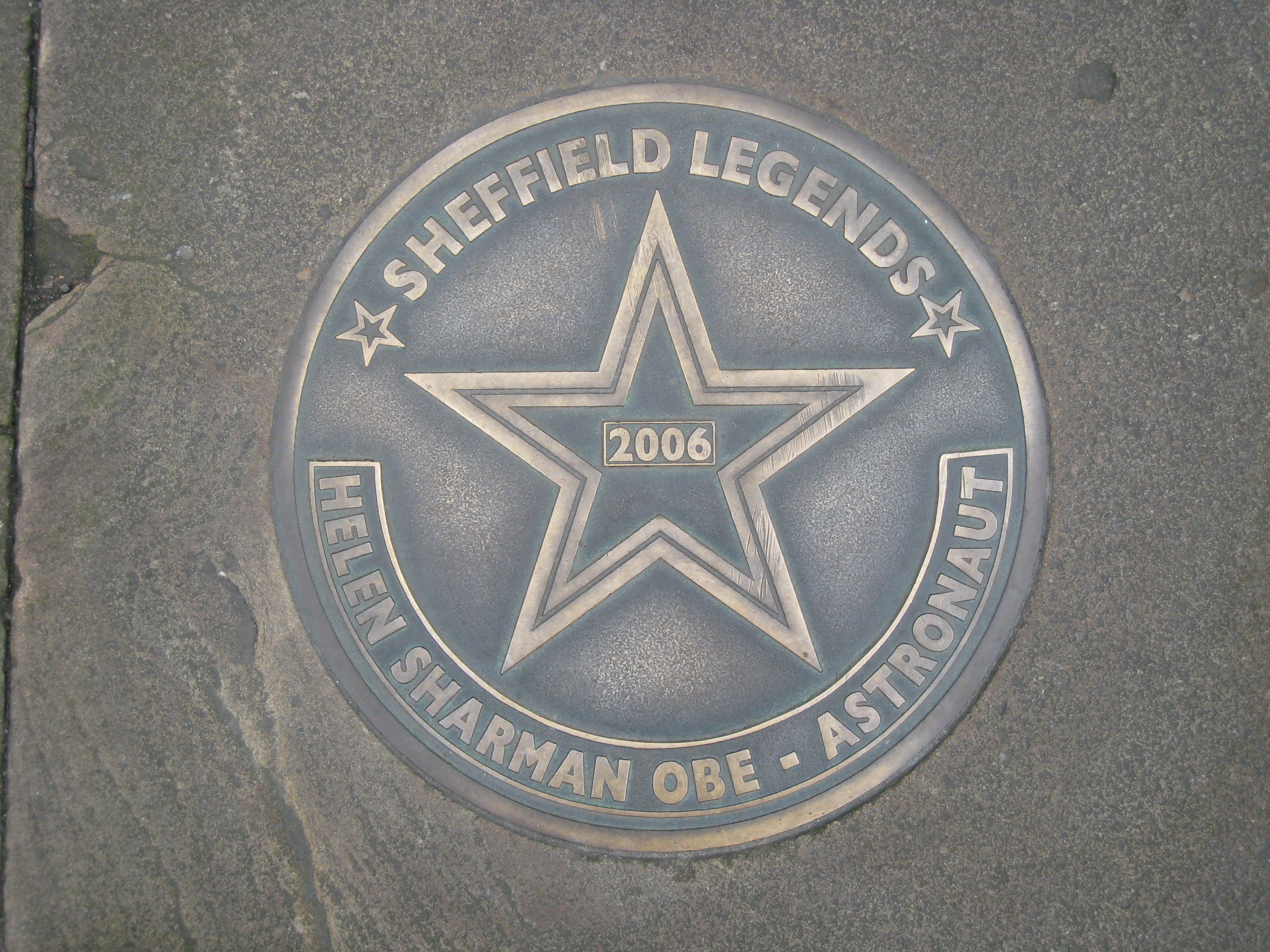 Commemorative star in the pavement outside Sheffield Town Hall: a "walk of fame" for people associated with the city. Helen Sharman.